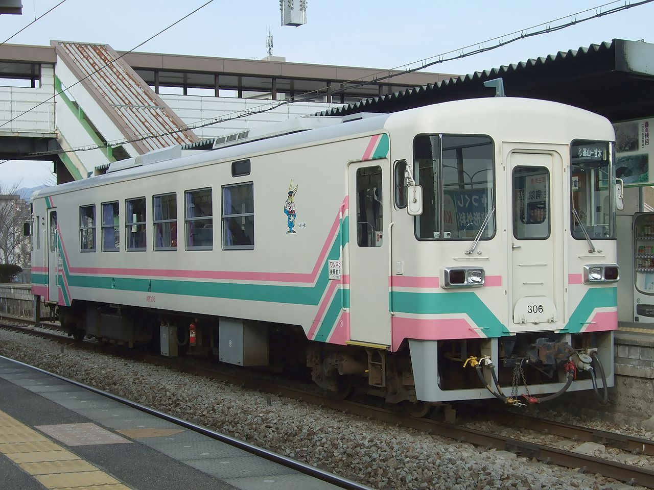 Amagi Railway DMU AR306 at Kiyama Station in Kiyama, Saga, Japan